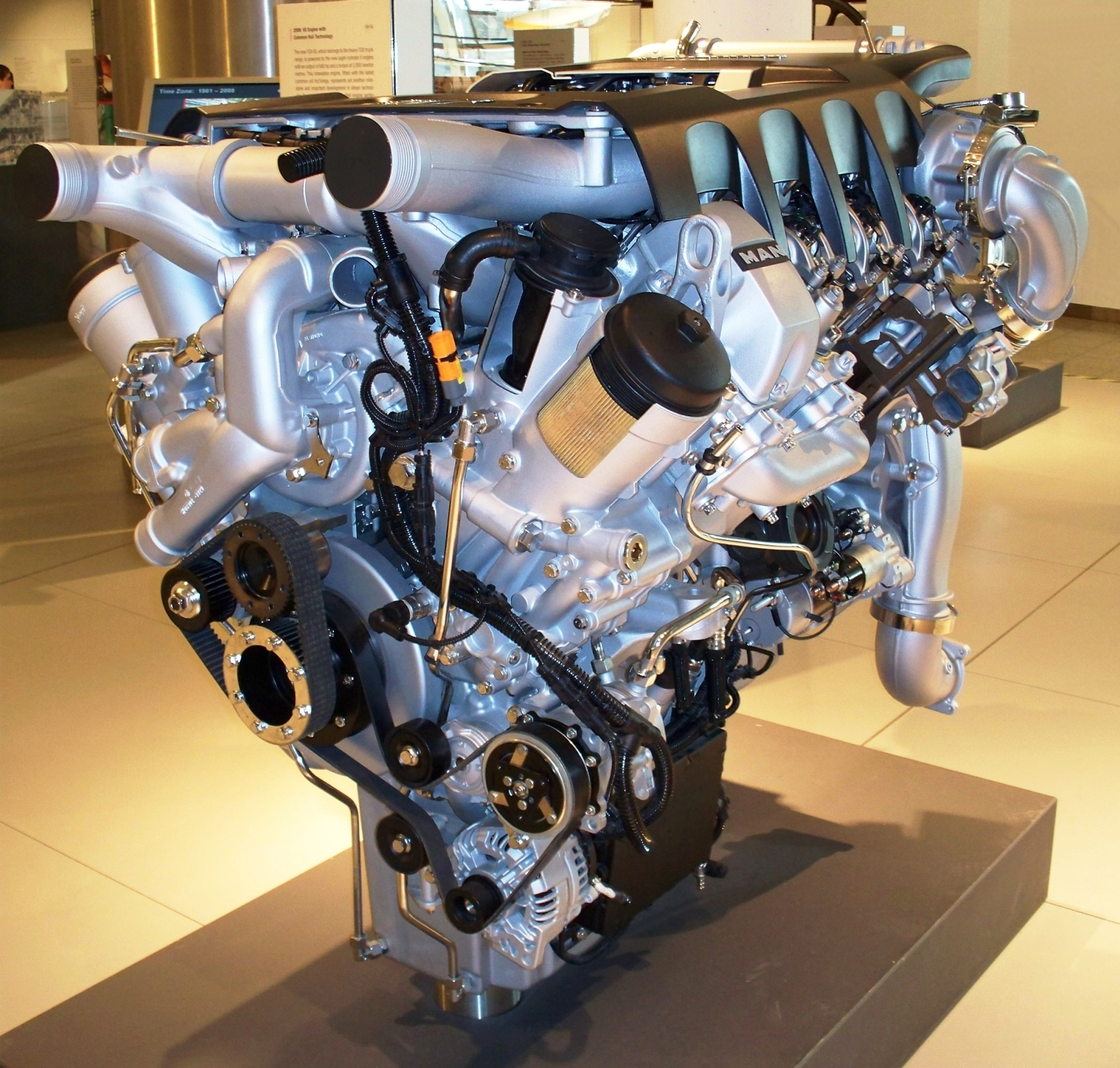 A MAN TGX V8 truck engine (680 hp, torque of 3000 Nm), built in 2008, displayed in the Deutsches Museum in Munich.